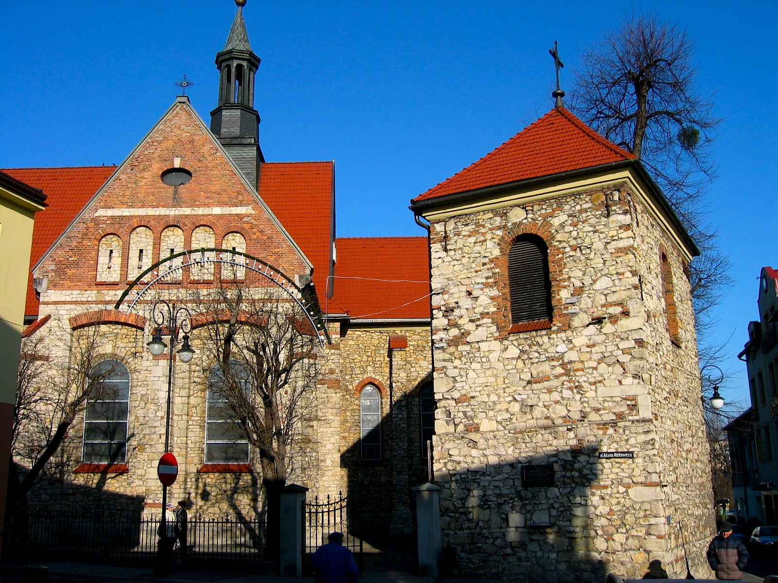 Chrzanów, the Church of St Nicholas